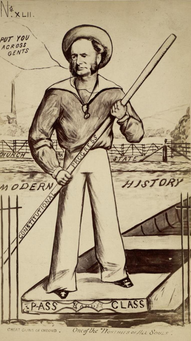 A portrait from the Welsh Portrait Collection at the National Library of Wales. Depicted person: Montagu Burrows – British historian, 1819-1905